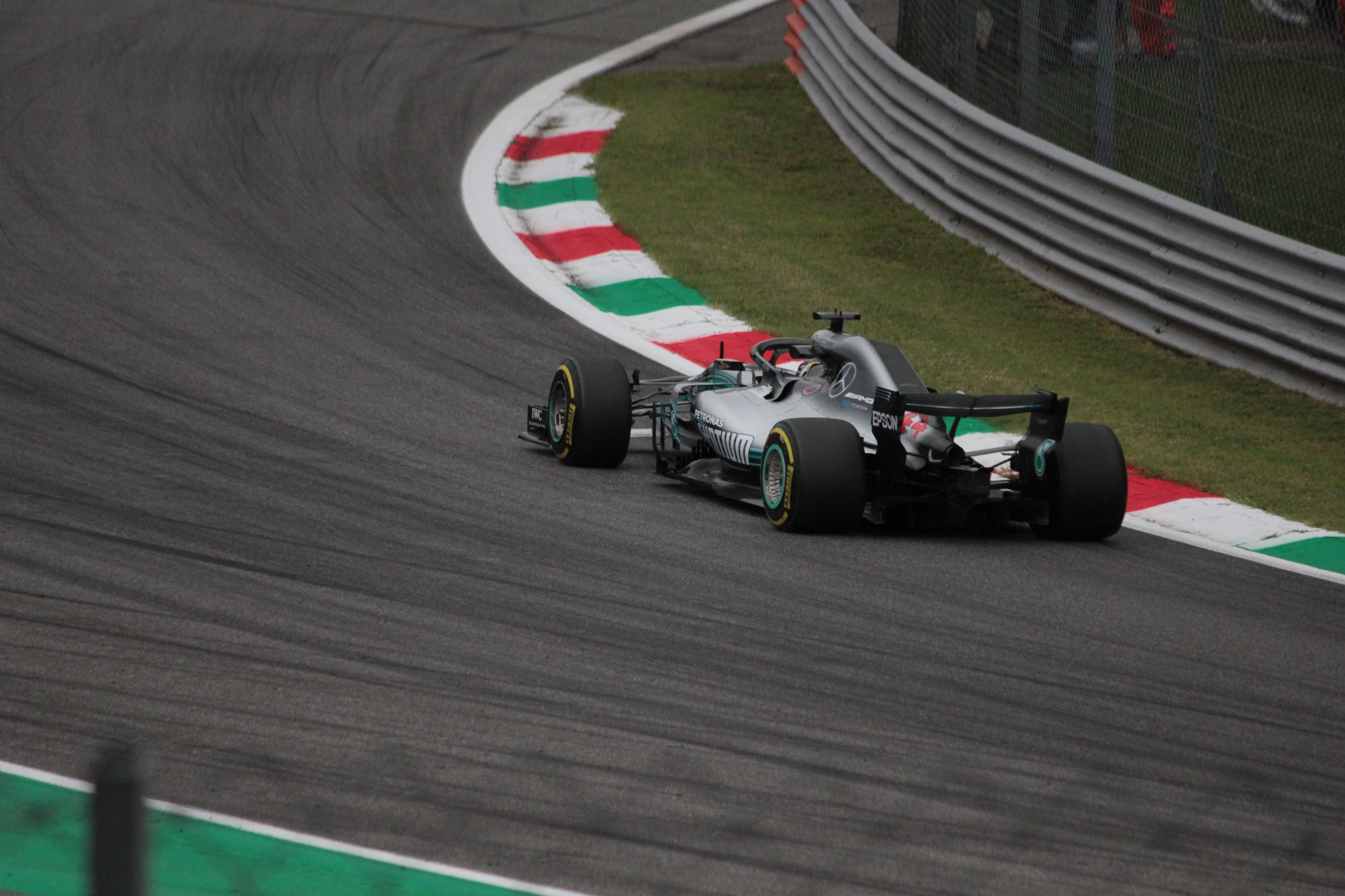 Lewis Hamilton at Monza's Parabolica, during FP2